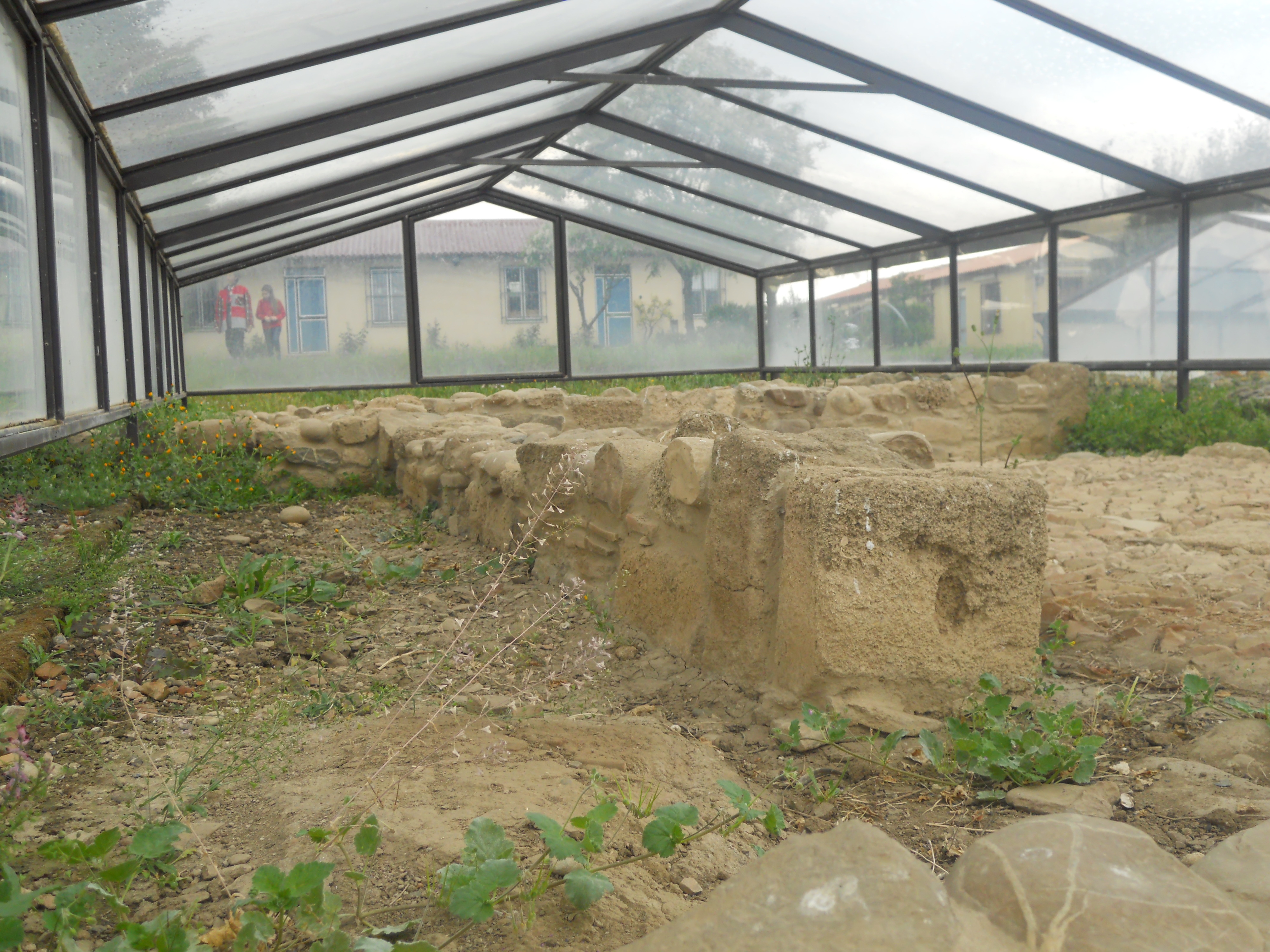 Herakleia and Siris archeological area, in the Museo nazionale della Siritide of Policoro (Italy)